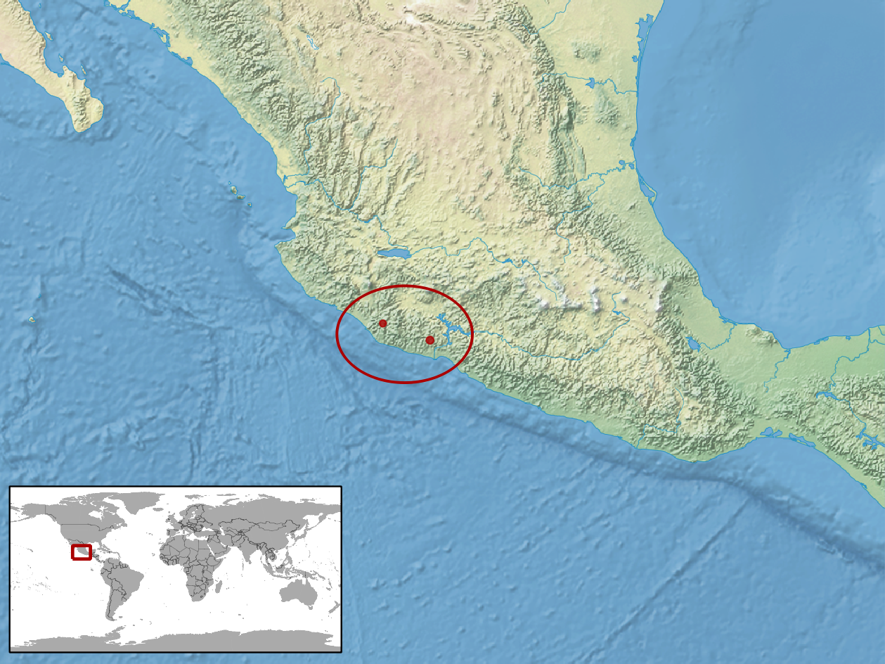 geographic distribution of Coniophanes sarae (Native: Mexico)